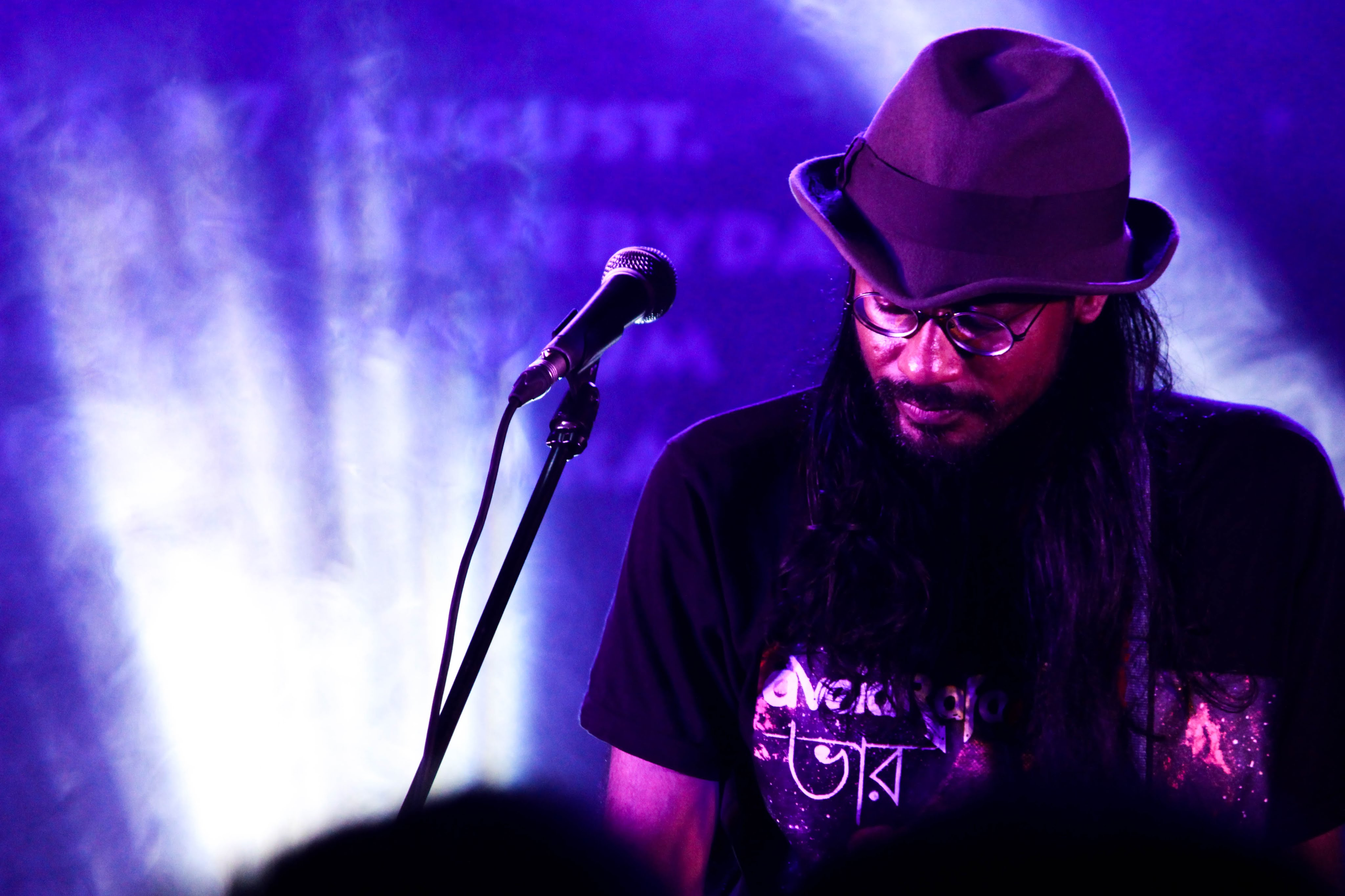 This photo is taken by the uploader on a program 'A Tribute To Sir Lucky Akhand' staged at TSC Auditorium, University of Dhaka on August 17, 2016